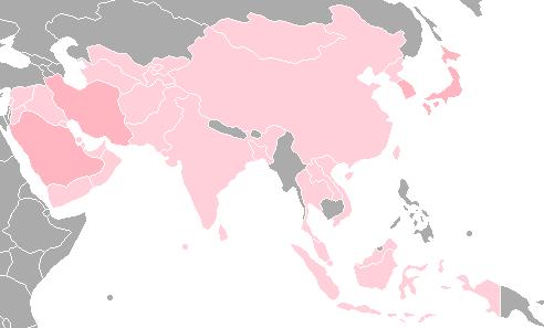 Shows teams of en:2006 FIFA World Cup qualification/Asia on a world map